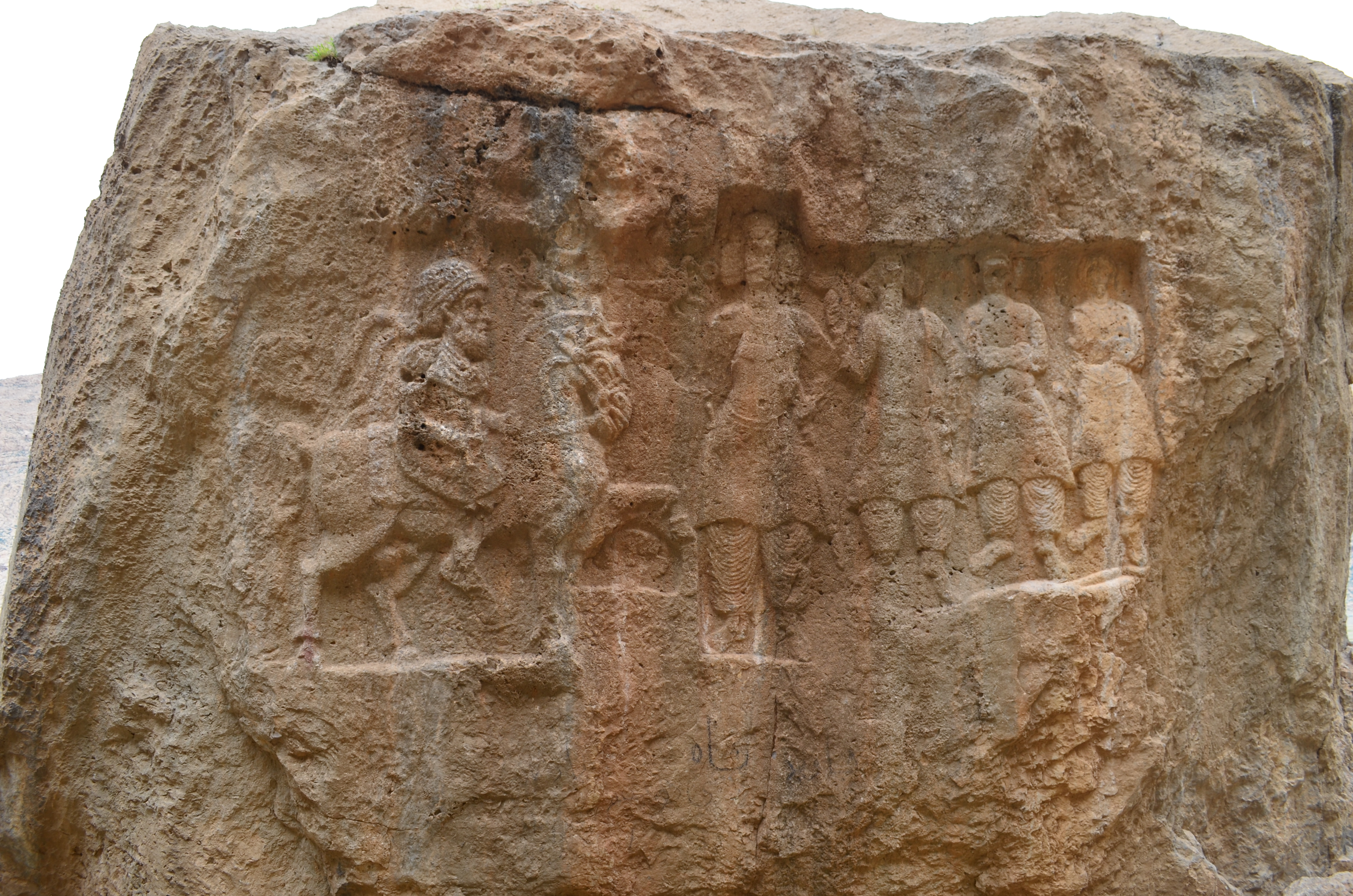 Khong Azhdar